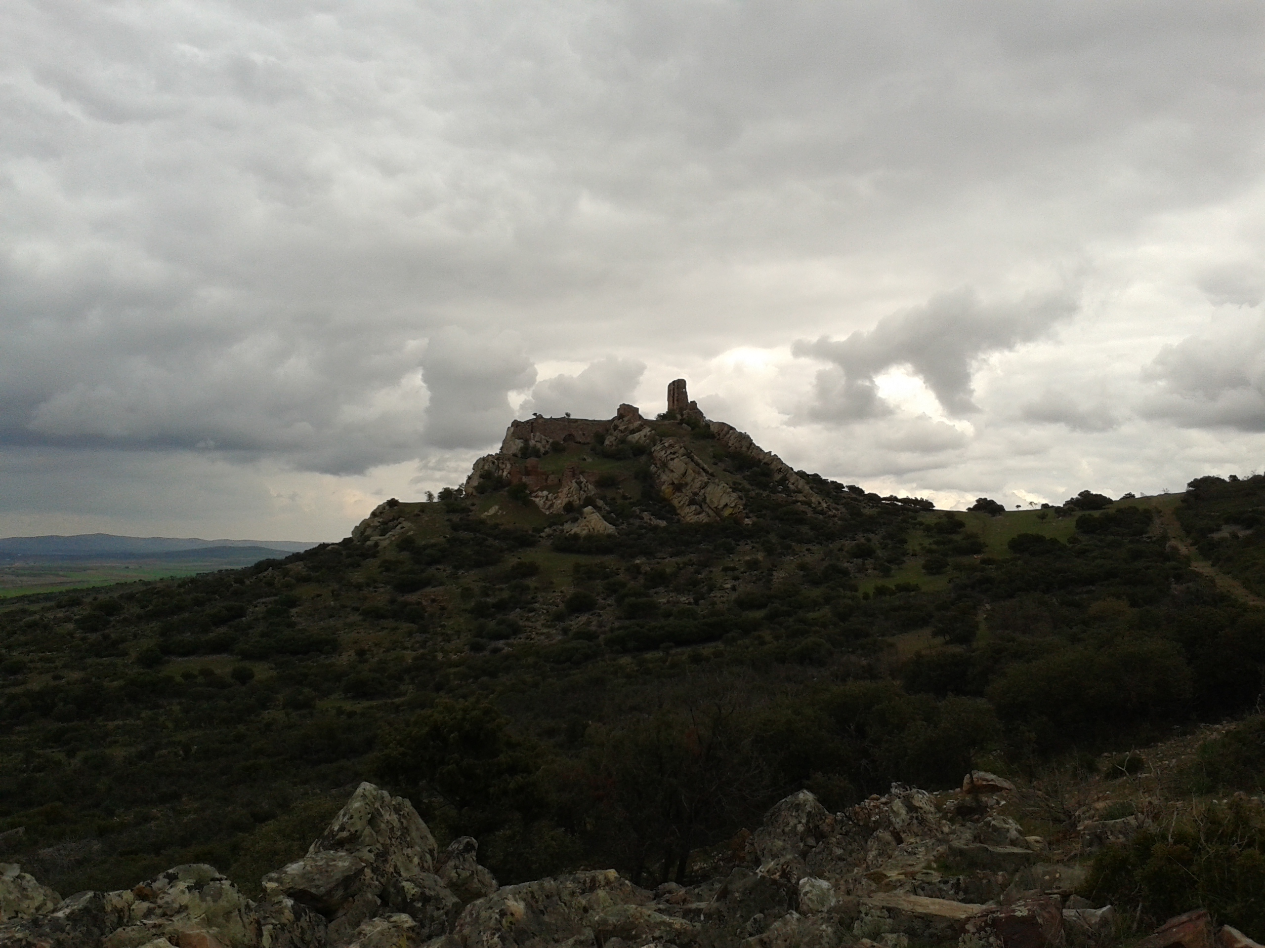 Hill and ruins of the castle of Salvatierra seen from the south